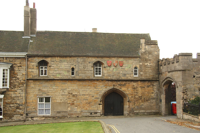 Vicar's Court gatehouse